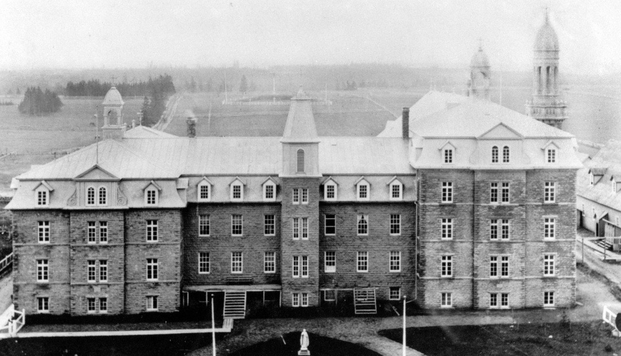 The Sacré-Coeur College in Caraquet, New Brunswick, in 1910. From the Fidèle Thériault collection.